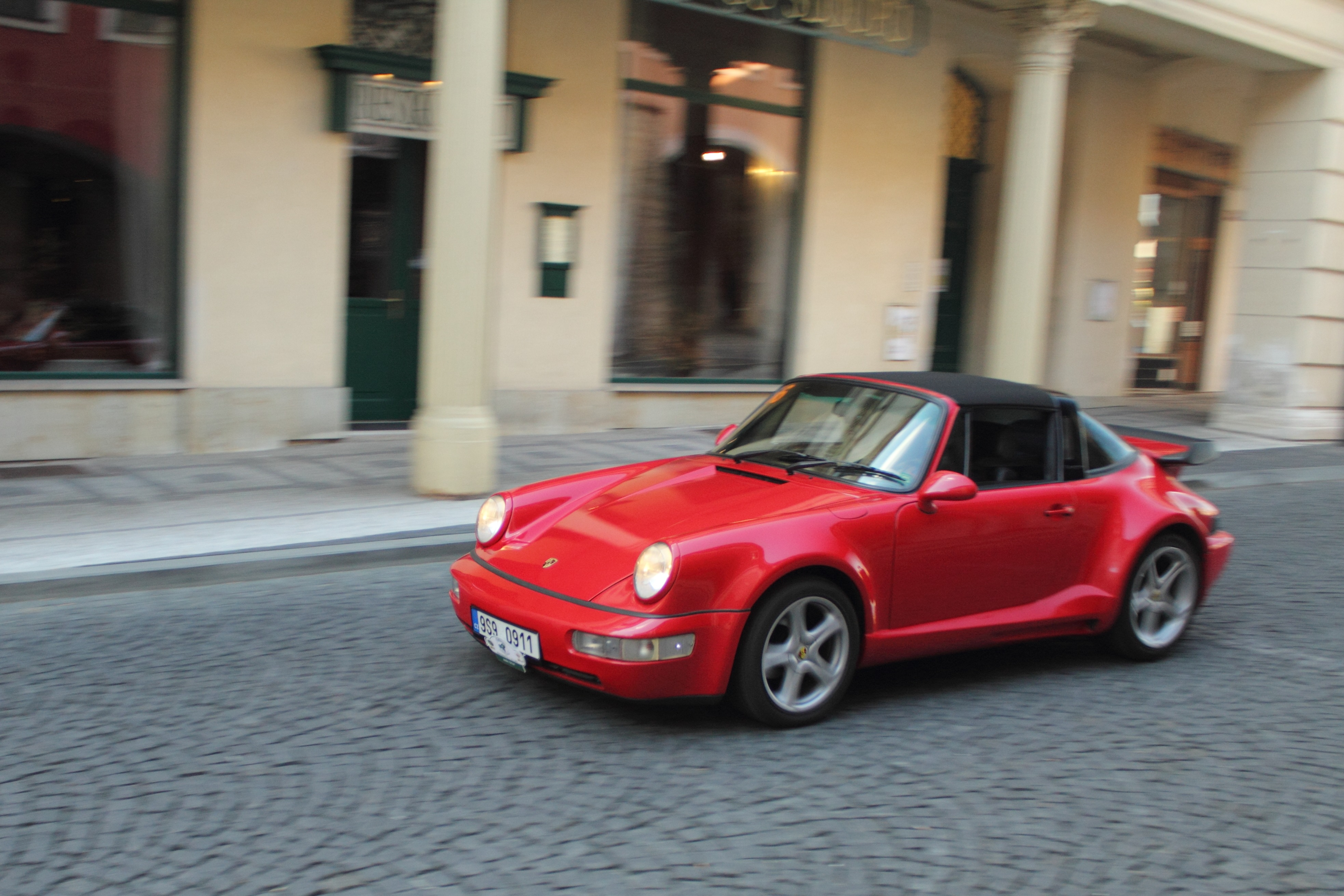 Porsche 911 Targa, 2013 Oldtimer Bohemia Rally, Mladá Boleslav